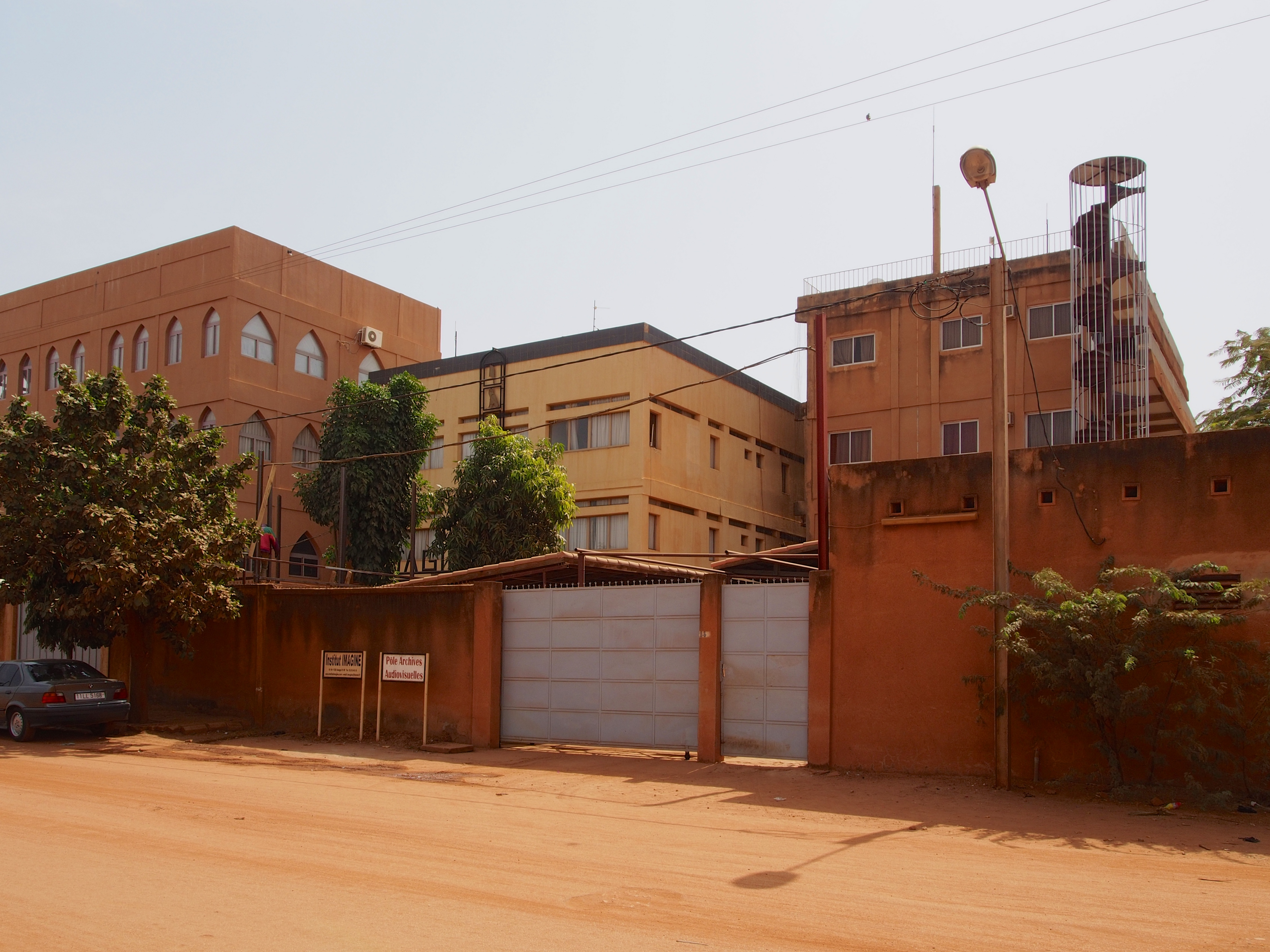 the institute Imagine, the studio, film factory and director's school of Gaston Kaboré at Ouagadougou